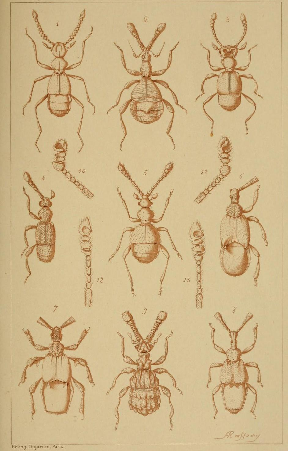 Pselaphidae: 1) Dalmina elegans, 2) Pselaphischnus squamosus, 3) Syrbatus mashuna, 4) Batoxyla punctata, 5) Pseudotychus nigerimmus, 6) Novoclaviger wroughtoni, 7) Fustigerodes majusculus, 8) Fustigeropsis peringueyi, 9) Odontalgus costatus, 10) Pselaphocerus peringueyi, 11) Pselaphocerus diversus, 12) Pselaphocerus heterocerus, 13) Pselaphocerus antennatus